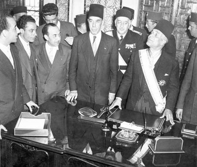 Passation des pouvoirs entre Habib Bourguiba et Tahar Ben Ammar